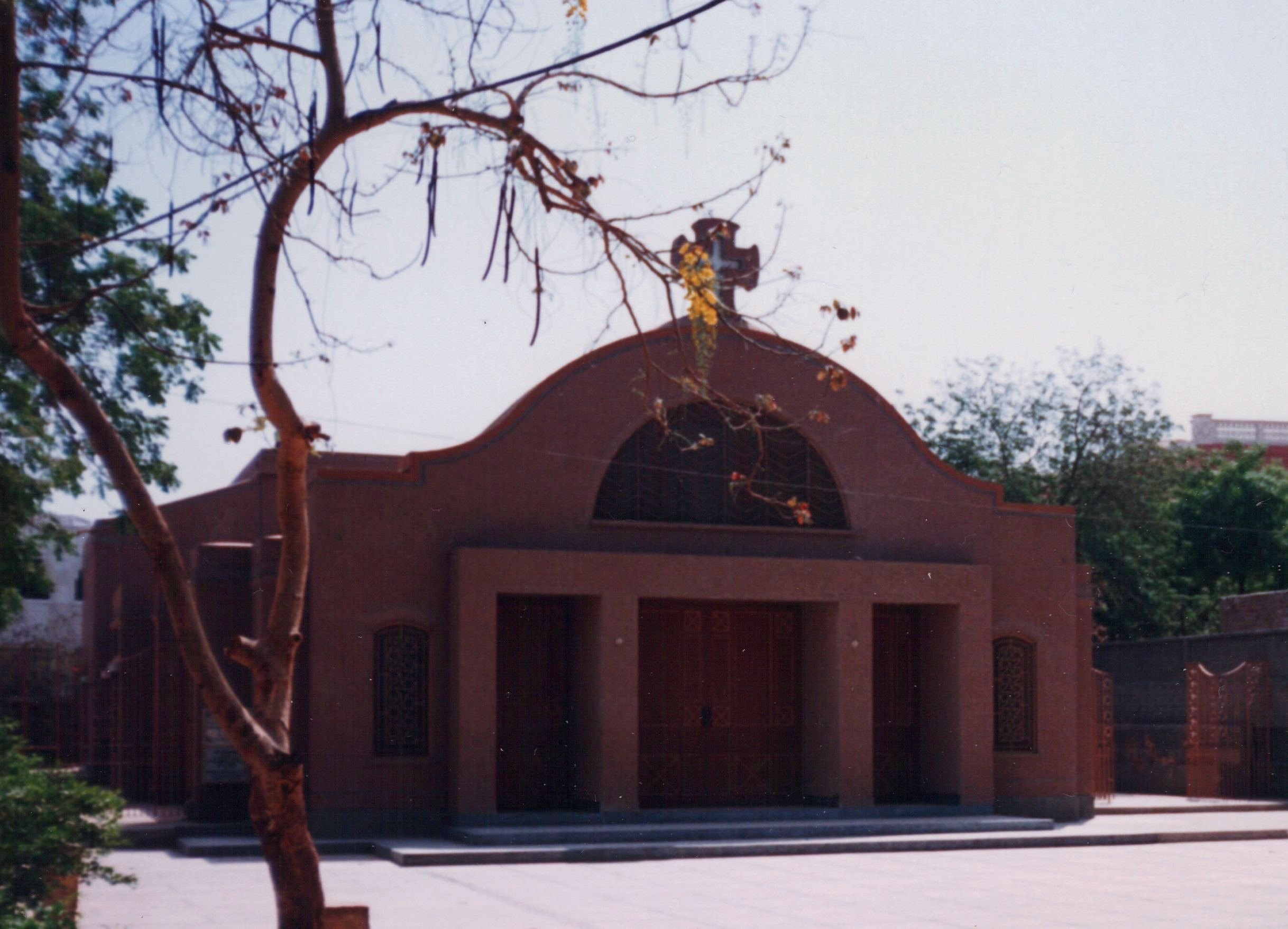 St. Francis Xavier Cathedral, Hyderabad, in 1992.